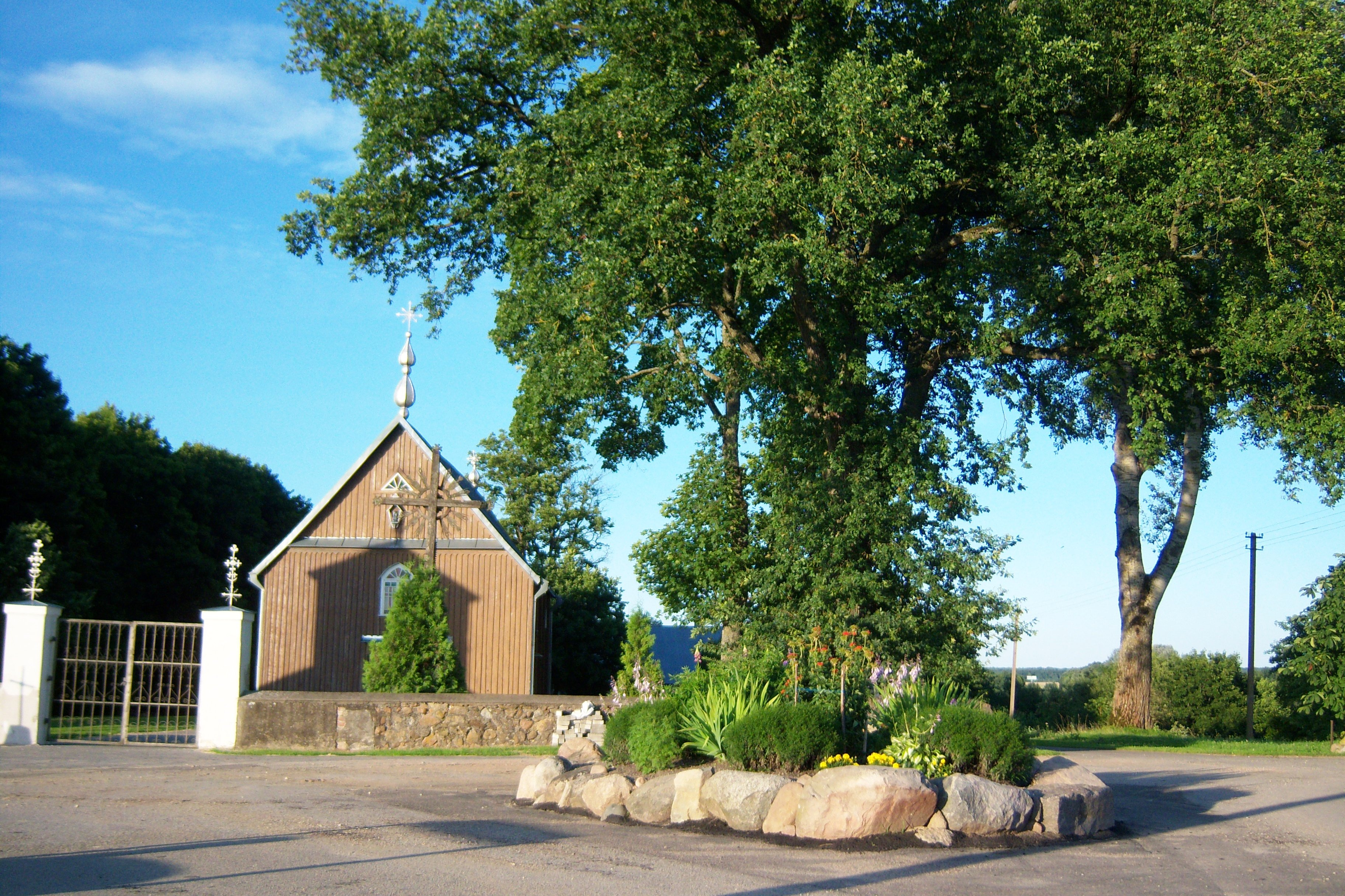 Butkiškės catholic church, Raseiniai district, Lithuania